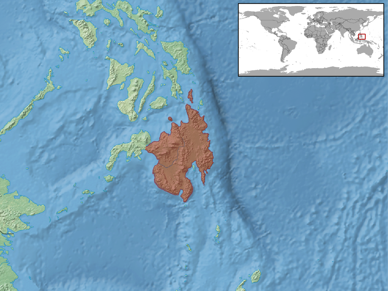 geographic distribution of Draco cyanopterus (Native: Philippines)